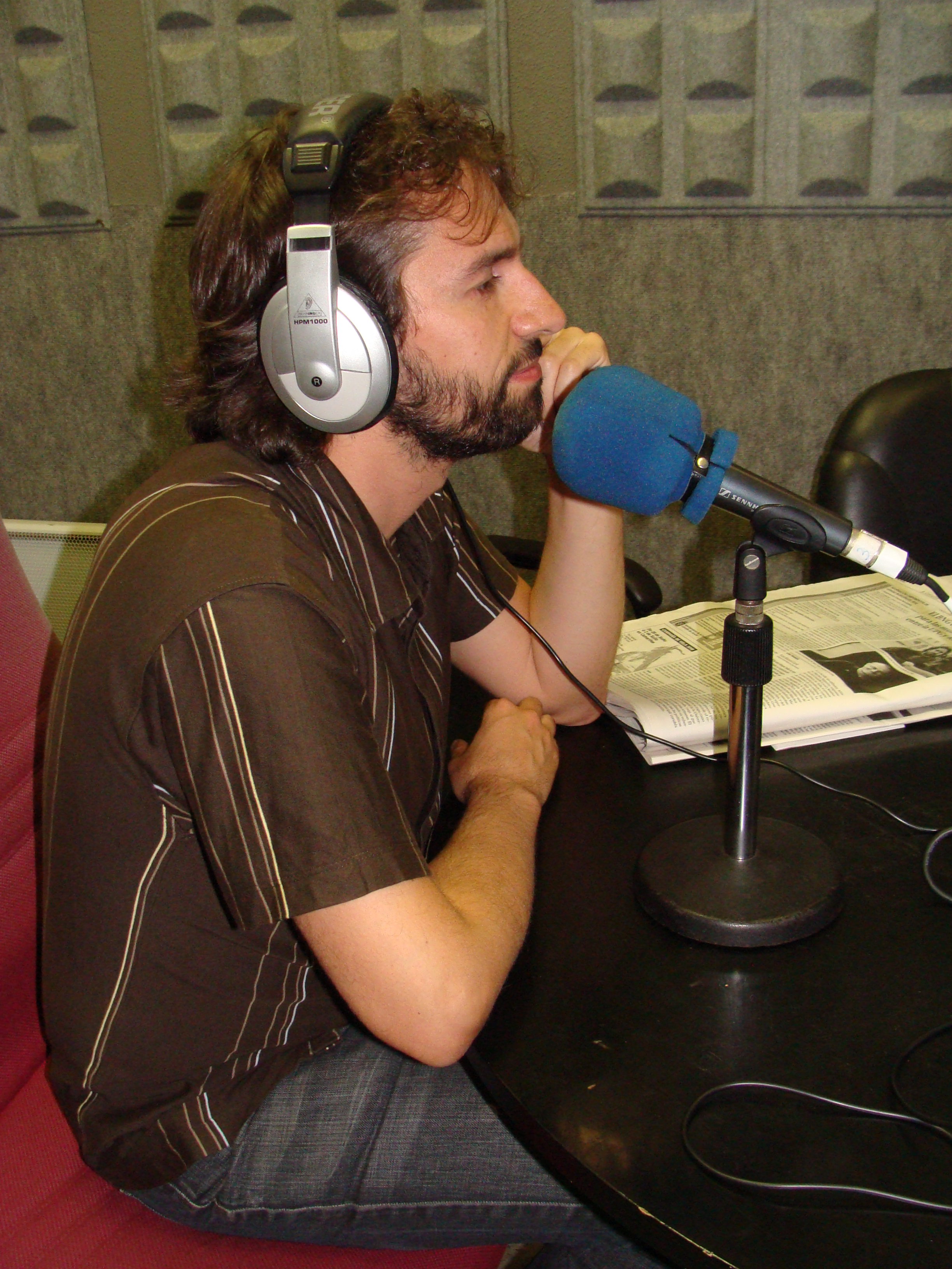 Tomás Legido Sánchez (Tomi Desastre), in the micros of Cuac FM (Corunna, Galicia, Spain)